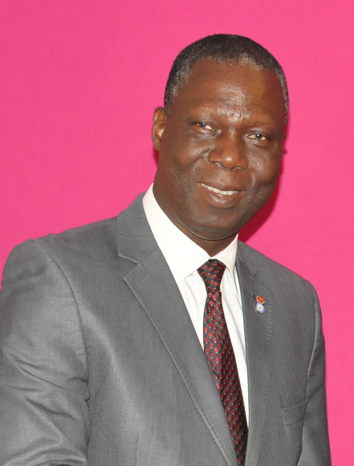 Maurice Bandaman at Paris Book Fair, 23 March 2015, Paris expo Porte de Versailles.